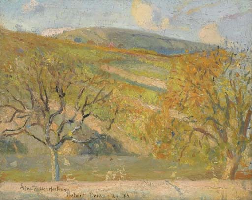 Paysage montagneux, signed, dated and dedicated A ma Petite Hortense Robert Delaunay 04, oil on canvas, 32.5 x 40.5 cm